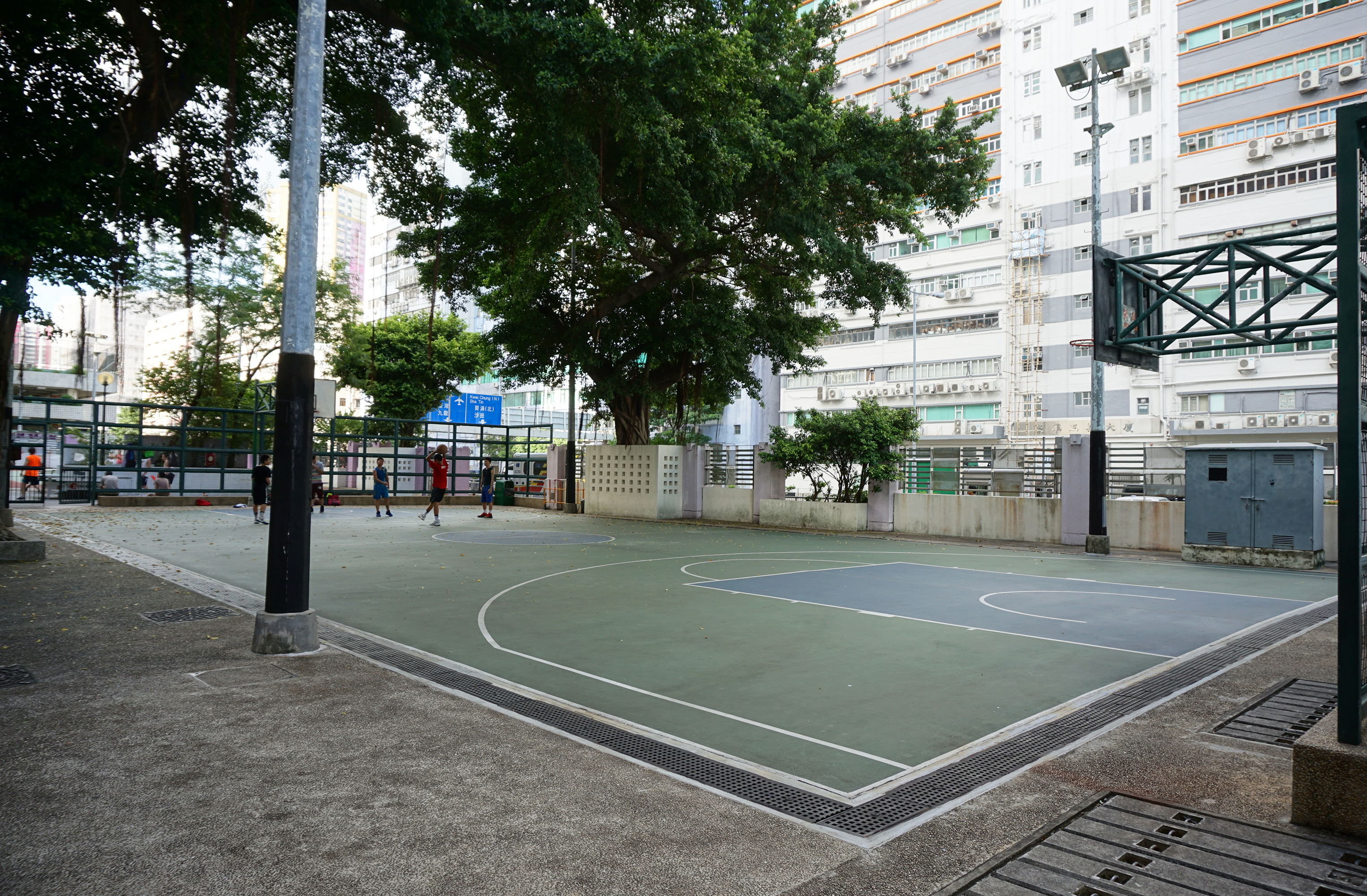 Kwai Chun Court in Kwai Chung, Hong Kong.